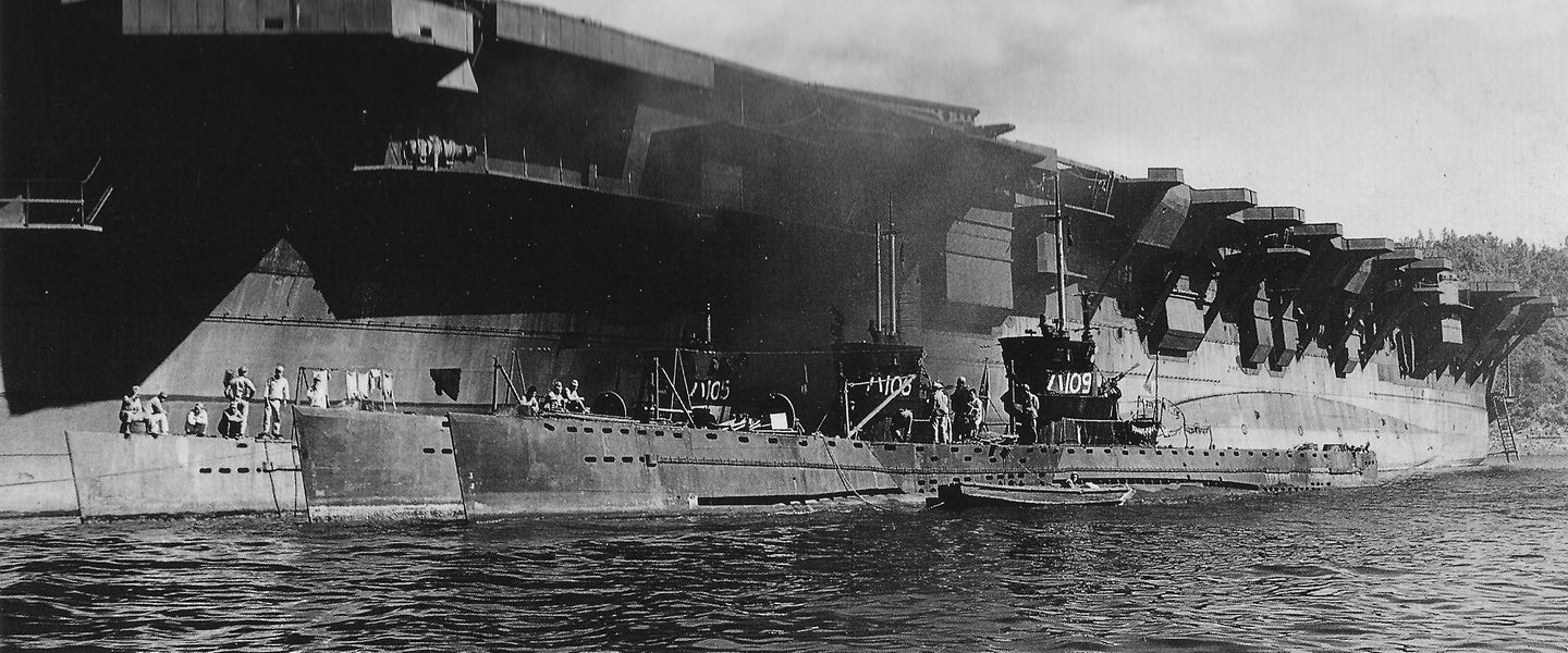 HIJMS Ha-105, Ha-106 and Ha-109